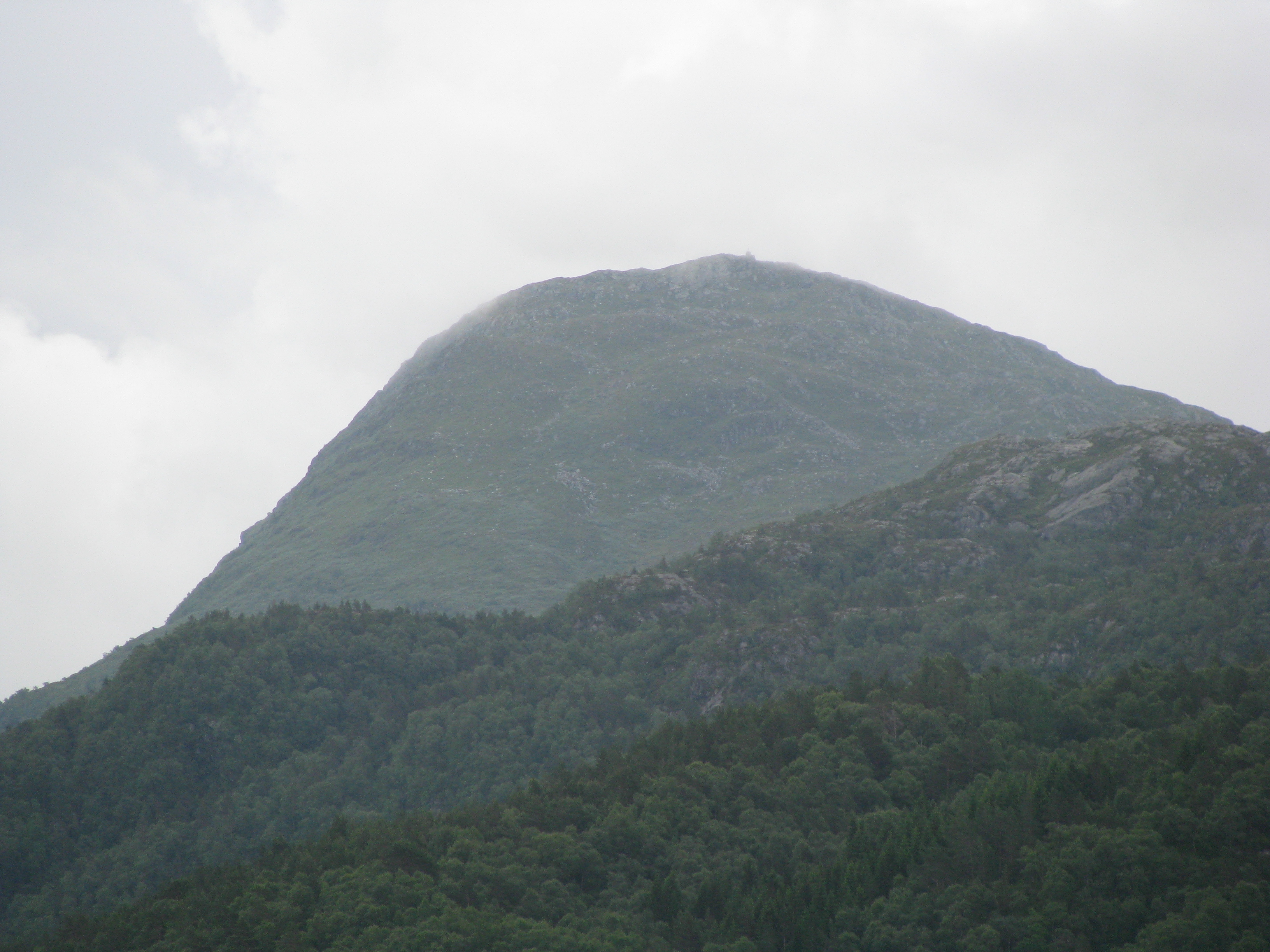 A picture of Tysnessåto taken from Våge, Tysnes, Hordaland, Norway.